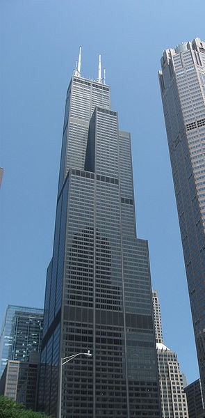 Sears Tower skyline perspective as viewed from the Chicago River.